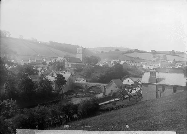 1 negative : glass, dry plate, b&w ; 12 x 16.5 cm.